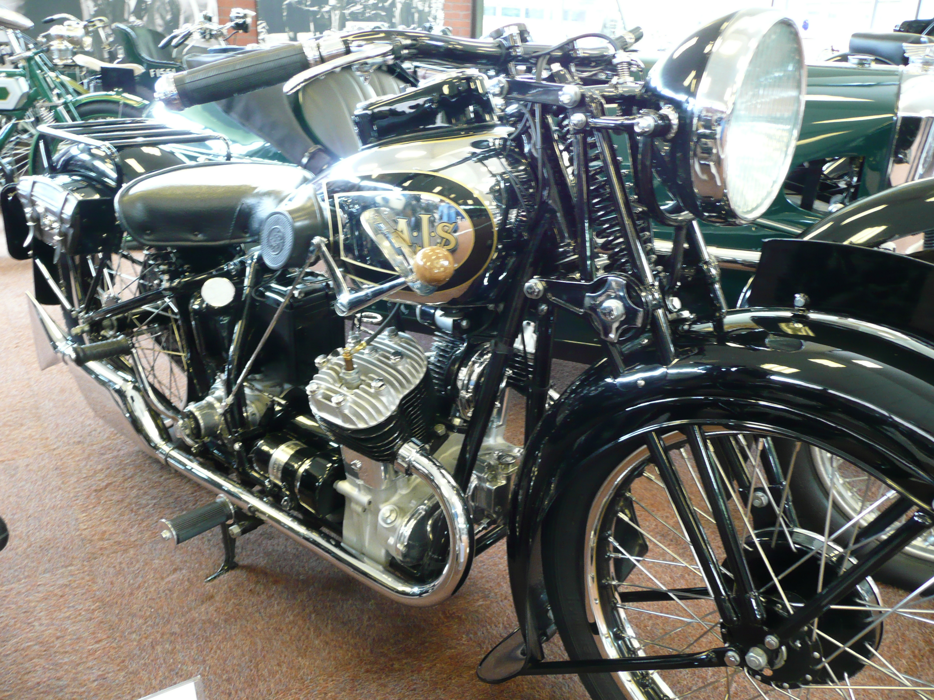 AJS Model S3 V-twin 1933